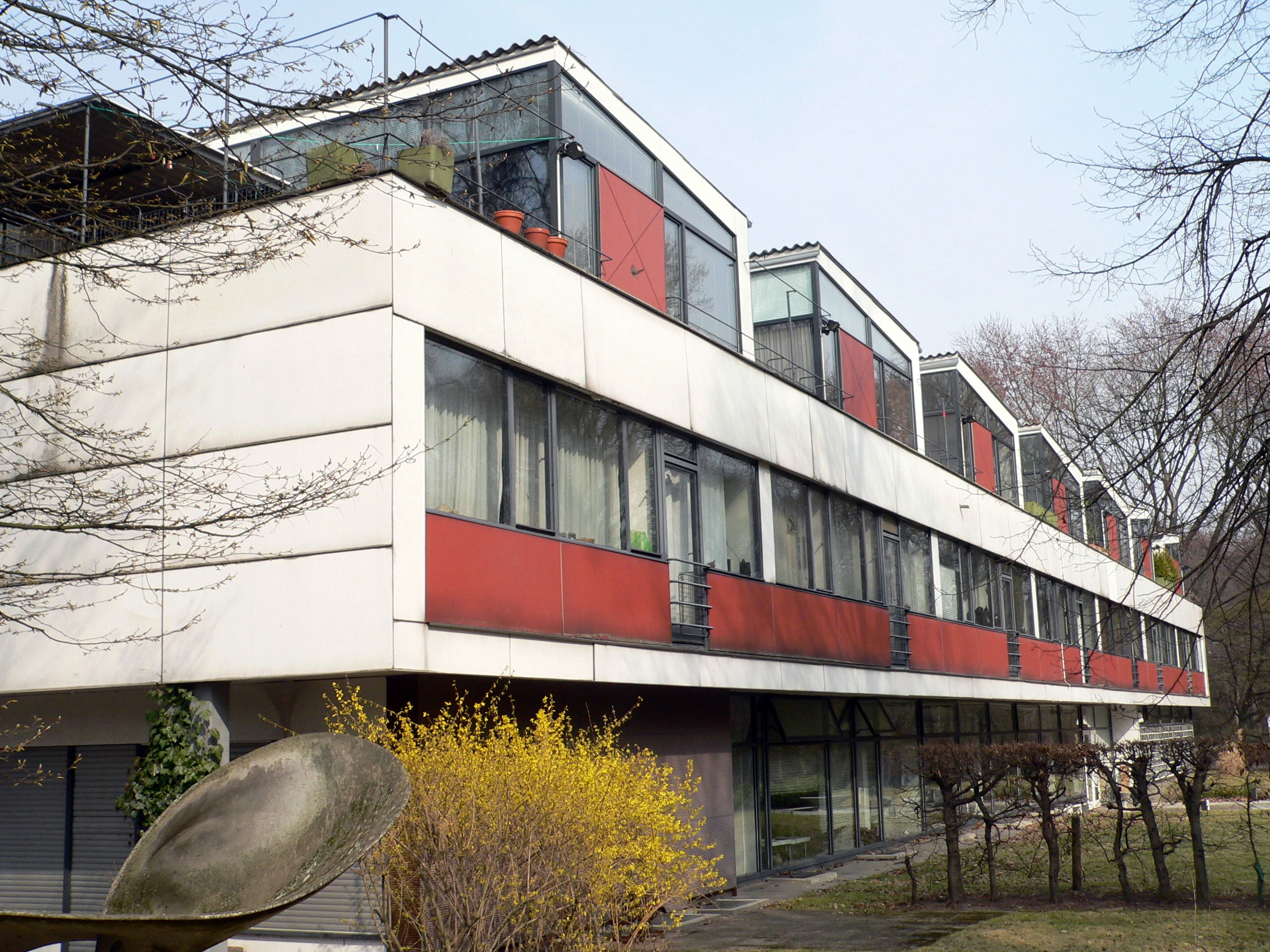 Berlin-Hansaviertel Altonaer Straße Eternithaus